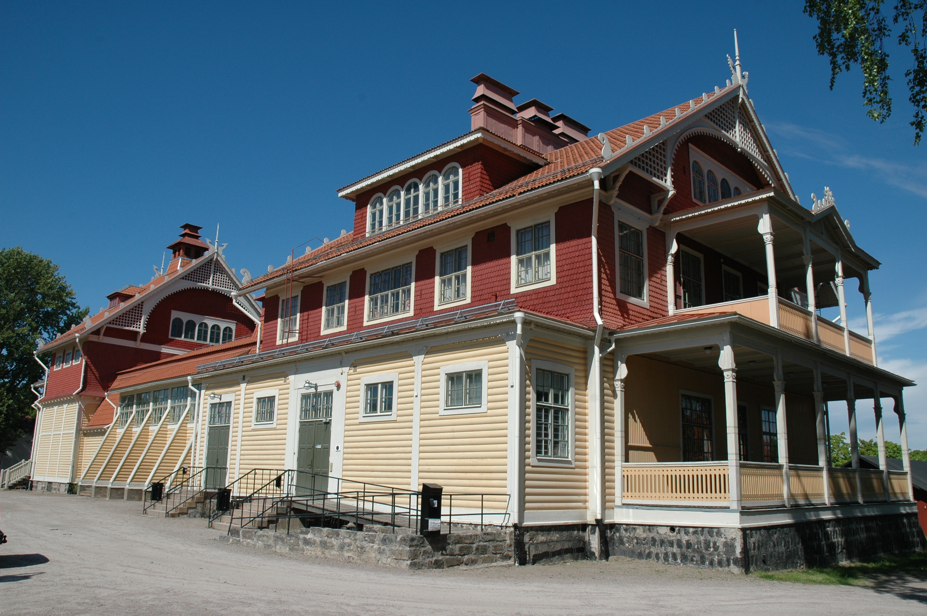 Pictures from the "Bergslagssafari" that Swedish Wikipedia performed between 4th and 6th of June 2010.